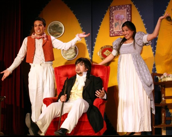 BOP 2009 Choufloueri